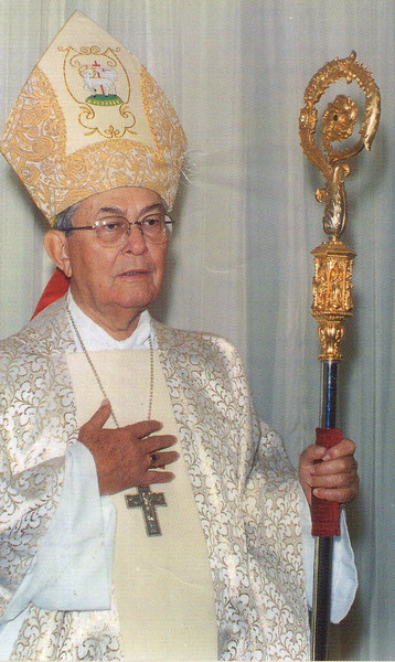 Ocasião Renuncia